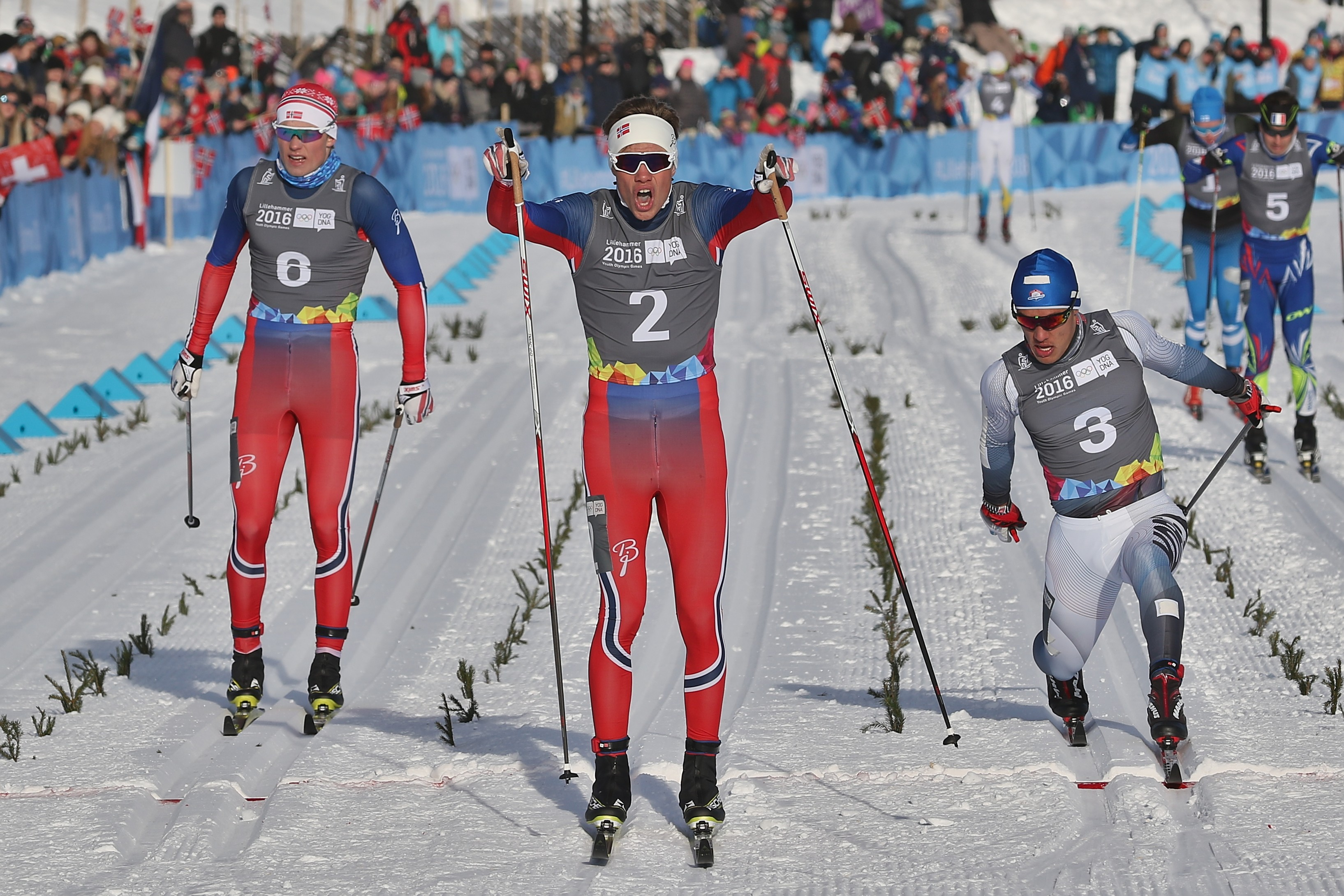 Lillehammer 2016 Cross country sprint classic men - Thomas Helland Larsen (no. 2), Magnus Kim (no. 3) and Vebjoern Hegdal (no. 6)